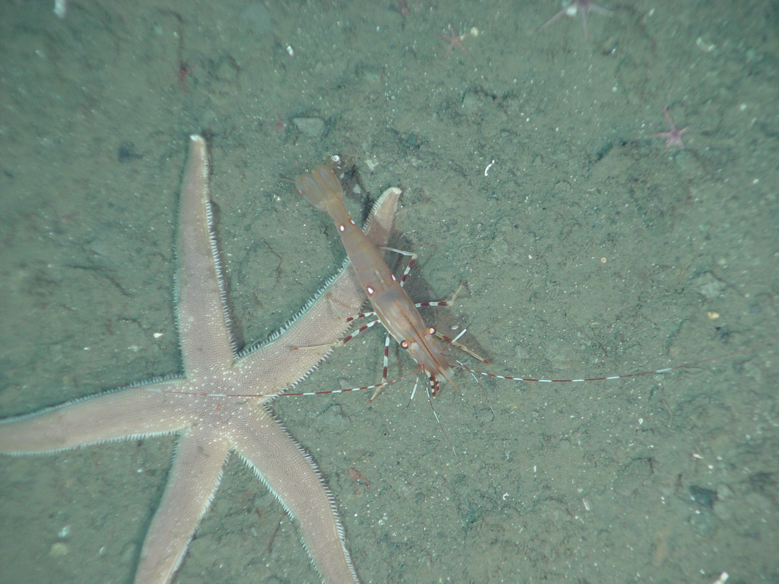 Luidia foliolata, a predatory sea star that feeds on bivalves, sea cucumbers and brittle stars among other things, makes an an imprint in the sand, like a snow angel. Large brown spot shrimp as well. Washington, Olympic Coast NMS.